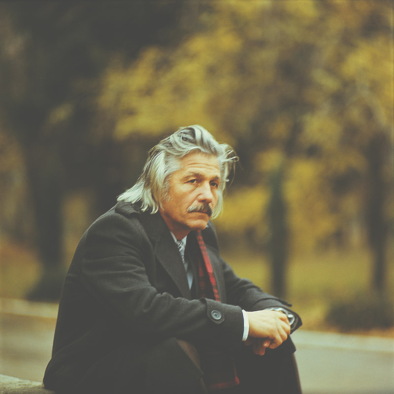 Mihai Volontir in the autumn (80-ies).